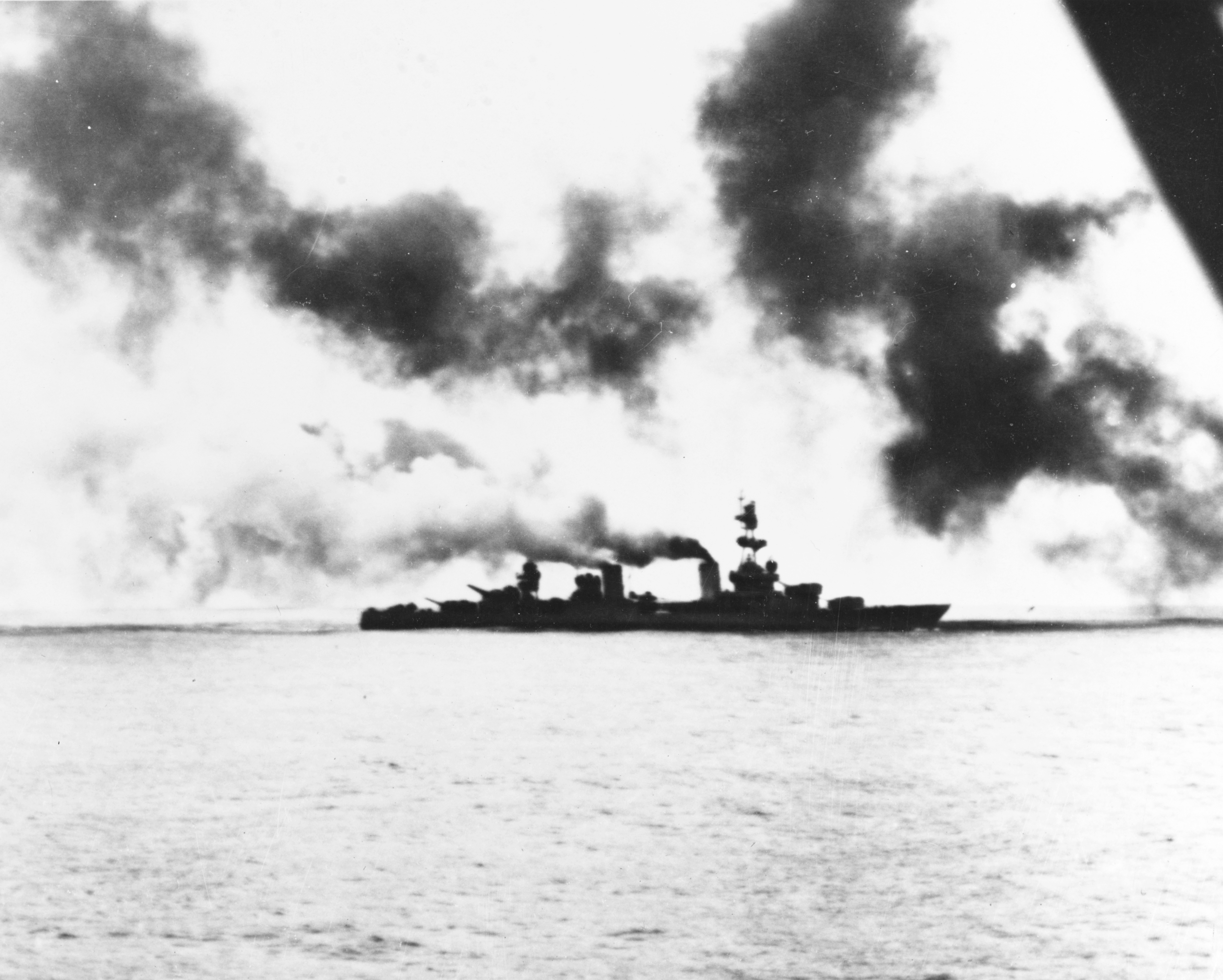 The U.S. Navy heavy cruiser USS Salt Lake City (CA-25) in action during the Battle of the Komandorski Islands on 26 March 1943, with an enemy salvo landing astern.